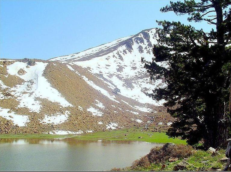 Lake Kartal Glacier Valley in Beyağaç, Denizli Province, Turkey